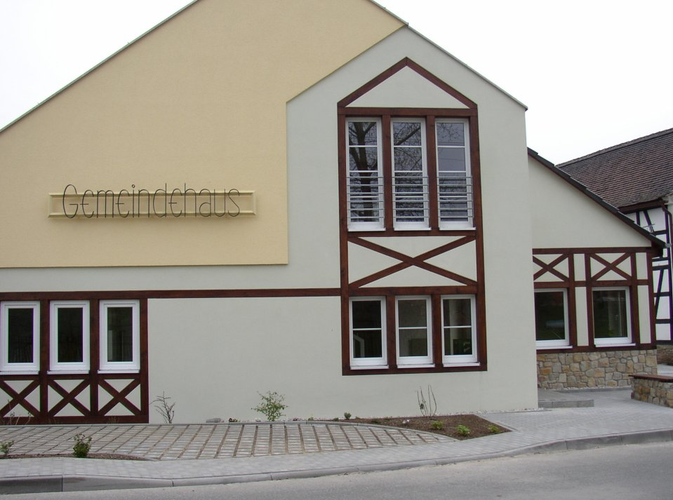 The Gemeindehaus in Hilbersdorf, Germany